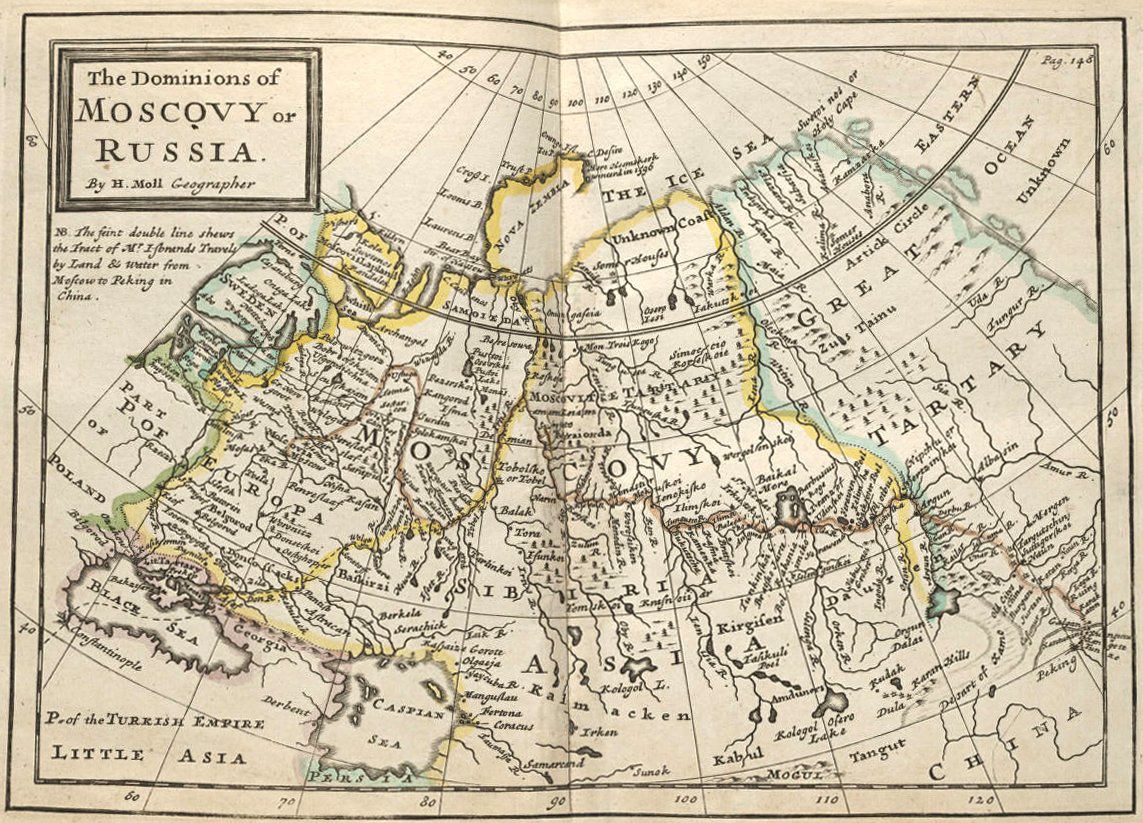 Map of dominions of Moscovy or Russia. From: Moll, Herman, Twenty four new and accurate maps of the several parts of Europe ... : all (except the last) new done, according to the latest observations / by Herman Moll, London, 1715?